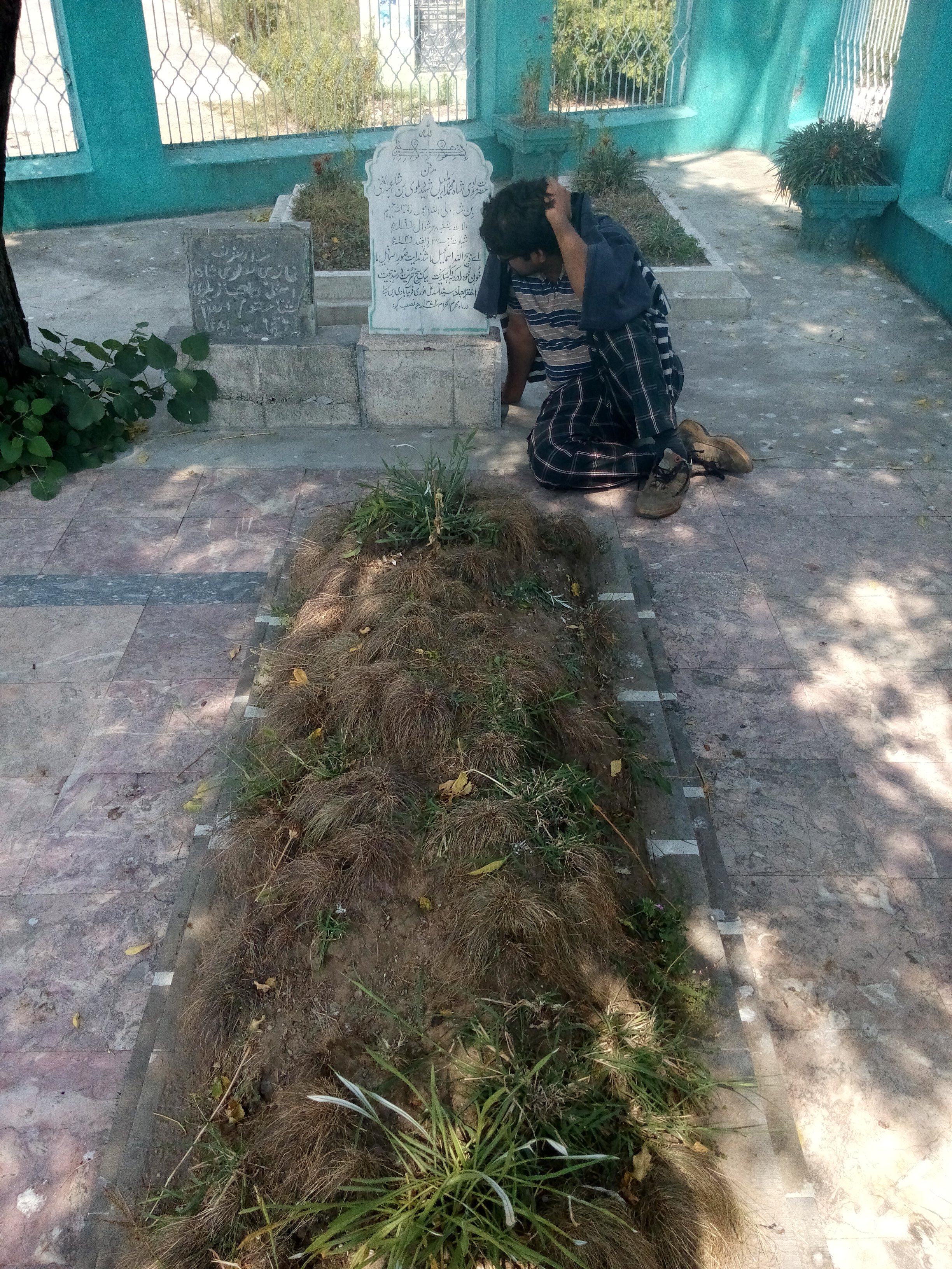 A visitor , or perhaps a mendicant, rests at the grave of Shah Ismail Shaheed in Balakot, Pakistan. Visitors routinely visit the grave to pray for the warrior saint.